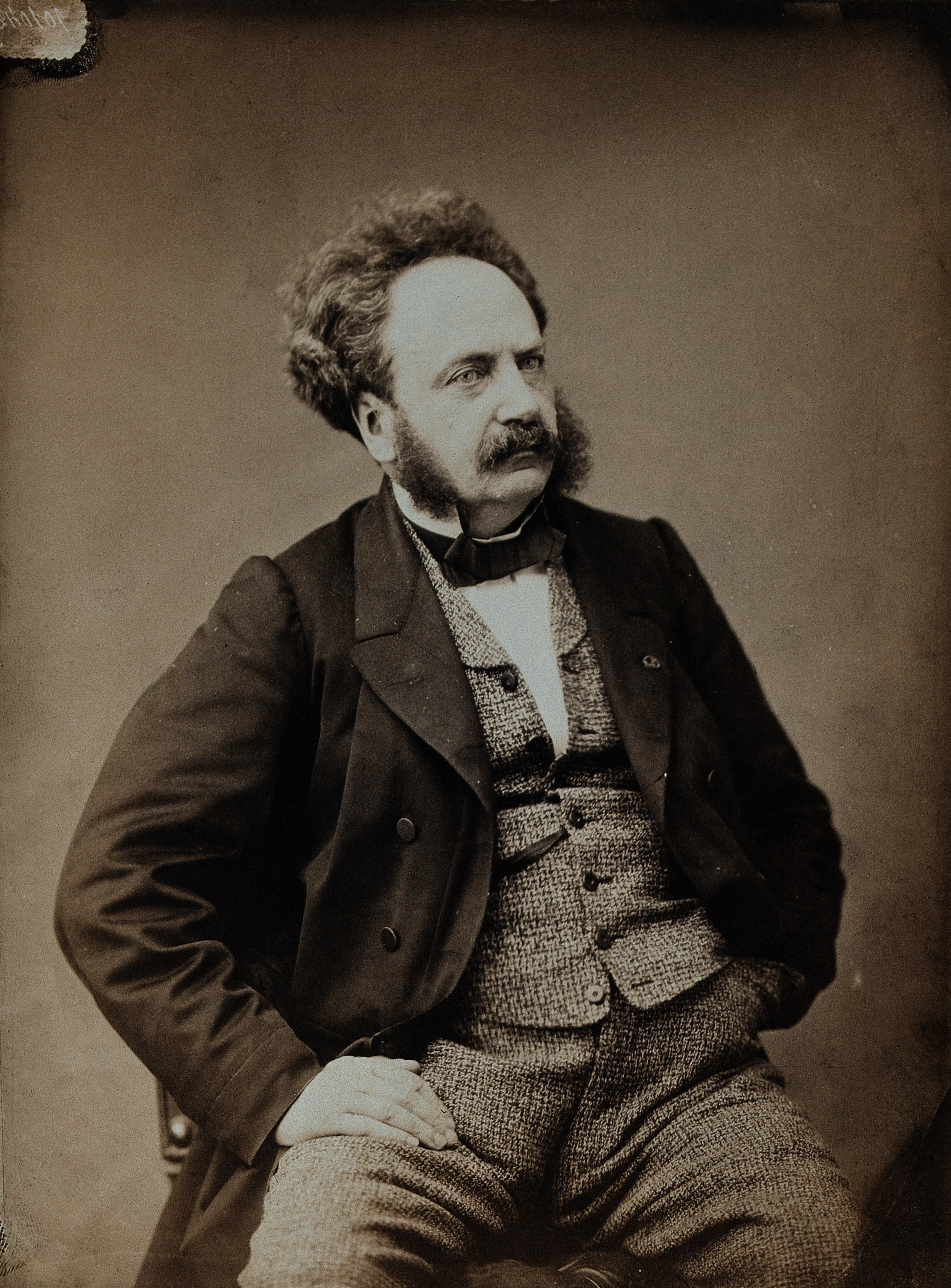 Auguste André Thomas Cahours. Photograph. Iconographic Collections Keywords: portrait photographs